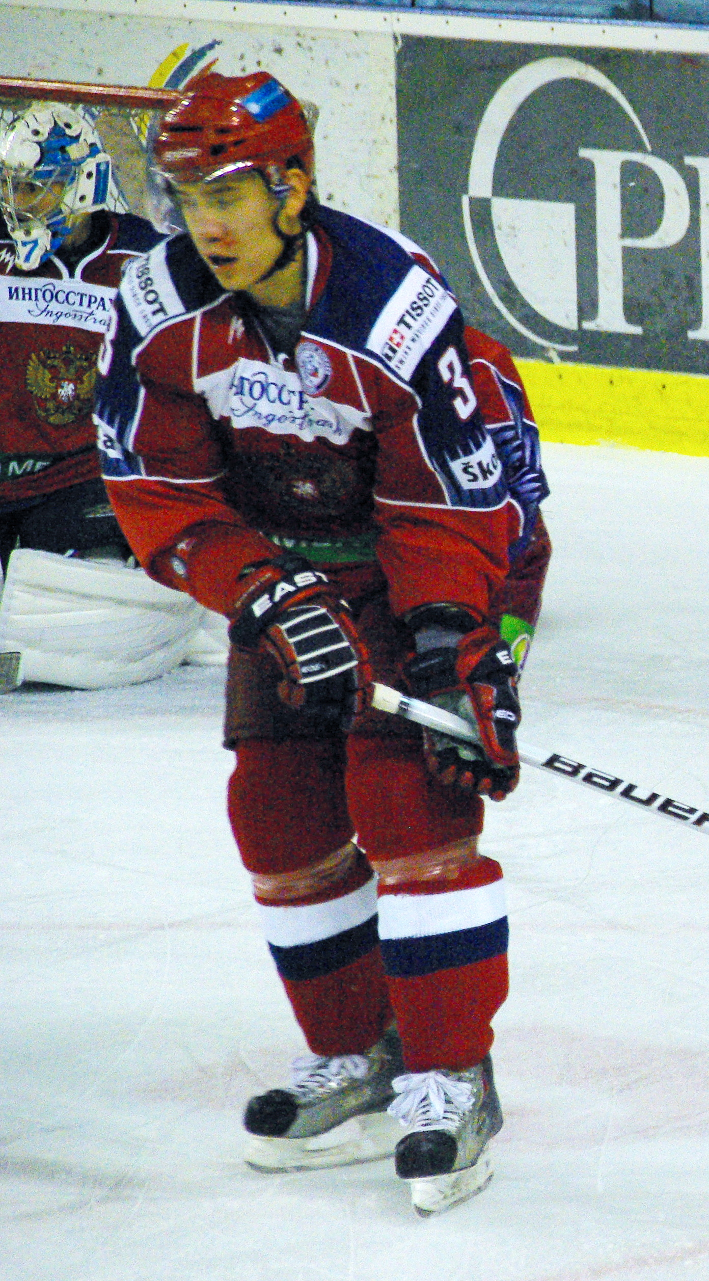 EIHC Tournament in Sanok (Poland), 2010 September 11, Ukraine - Russia 0:7